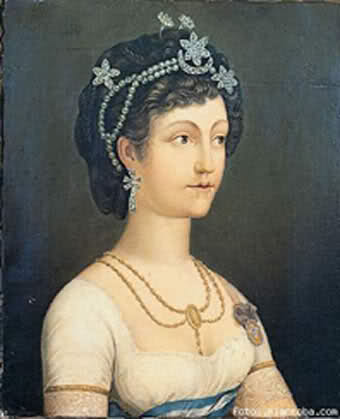 Maria Luisa of Spain, duchess of Lucca